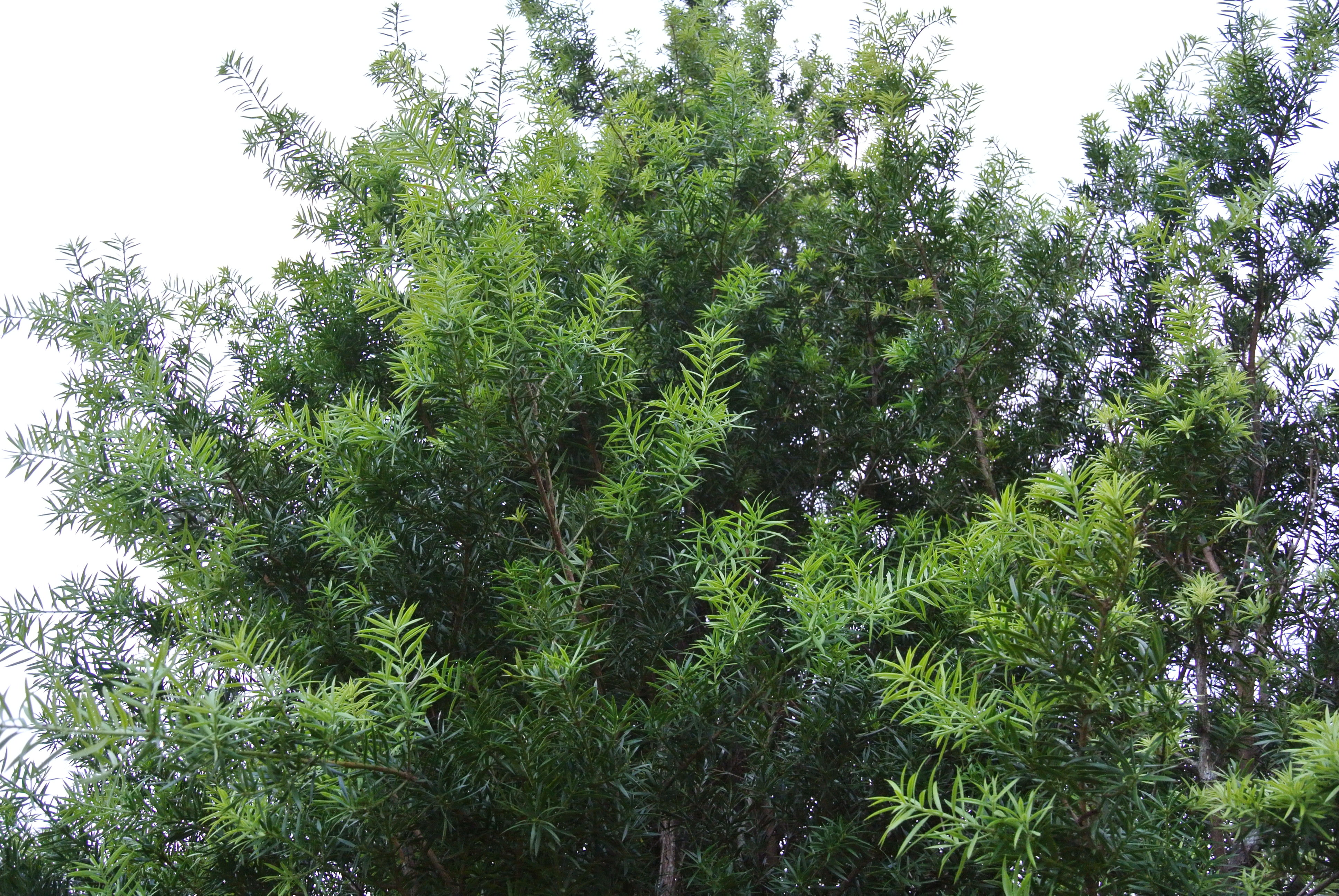 taken in Cuba, in Reserva Ecológica Lomas de Banao (Finca la Sabina) identification by the great Merlis Ramirez Artiles